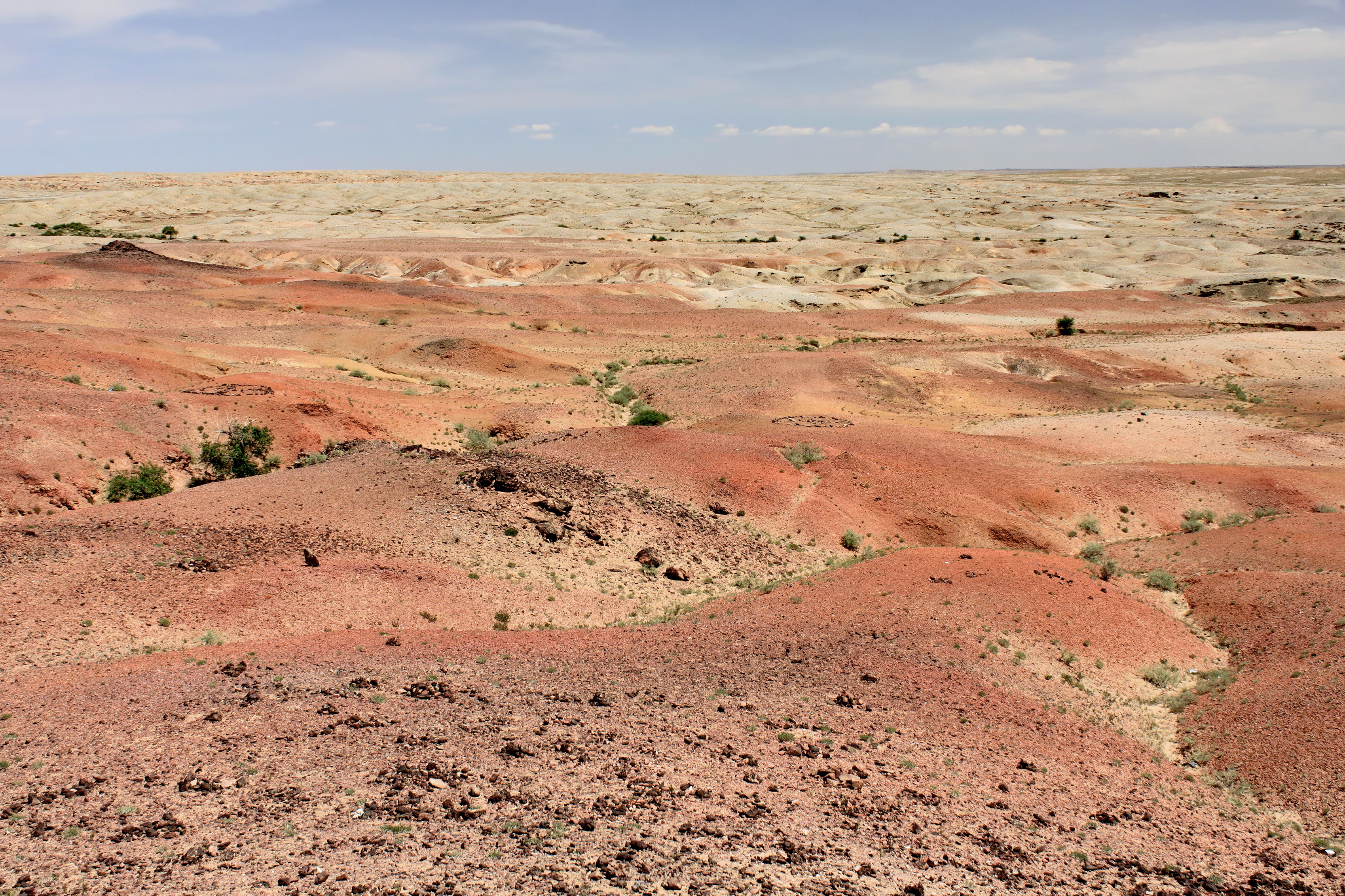 Gobi Desert landscape. Dornogovi Province, Mongolia.